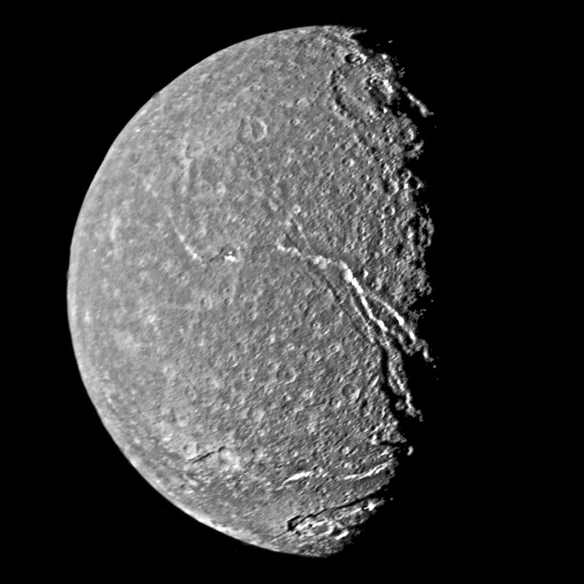 This is the highest-resolution picture of Titania returned by Voyager 2. The picture is a composite of two images taken Jan. 24, 1986, through the clear filter of Voyager's narrow-angle camera. At the time, the spacecraft was 369,000 kilometers (229,000 miles) from the Uranian moon; the resolution was 13 km (8 mi). Titania is the largest satellite of Uranus, with a diameter of a little more than 1,600 km (1,000 mi). Abundant impact craters of many sizes pockmark the ancient surface. The most prominent features are fault valleys that stretch across Titania. They are up to 1,500 km (nearly 1,000 mi) long and as much as 75 km (45 mi) wide. In valleys seen at right-center, the sunward-facing walls are very bright. While this is due partly to the lighting angle, the brightness also indicates the presence of a lighter material, possibly young frost deposits. An impact crater more than 200 km (125 mi) in diameter distinguishes the very bottom of the disk; the crater is cut by a younger fault valley more than 100 km (60 mi) wide. An even larger impact crater, perhaps 300 km (180 mi) across, is visible at top. The Voyager project is managed for NASA by the Jet Propulsion Laboratory. The original NASA image has been altered by cropping, doubling the linear pixel density, sharpening and enhancing contrast.